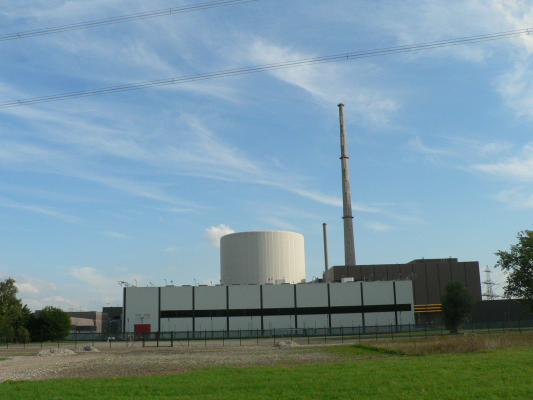 Atomic power plant, Gundremmingen, Germany